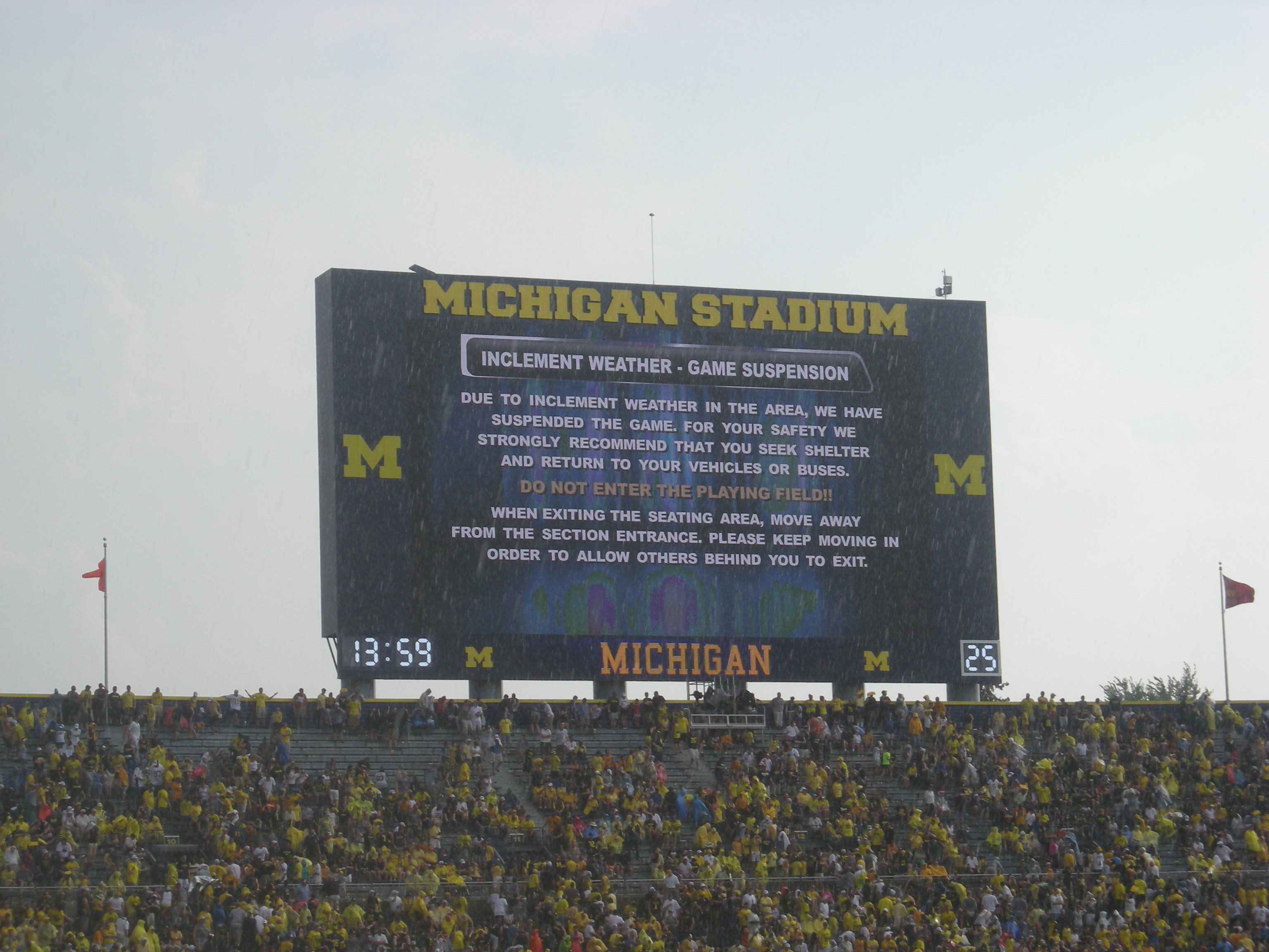 Suspension of play due to inclement weather announced during the third quarter of the the Western Michigan Broncos vs. Michigan Wolverines football game at Michigan Stadium in Ann Arbor, Michigan (United States). Michigan won 34–10.